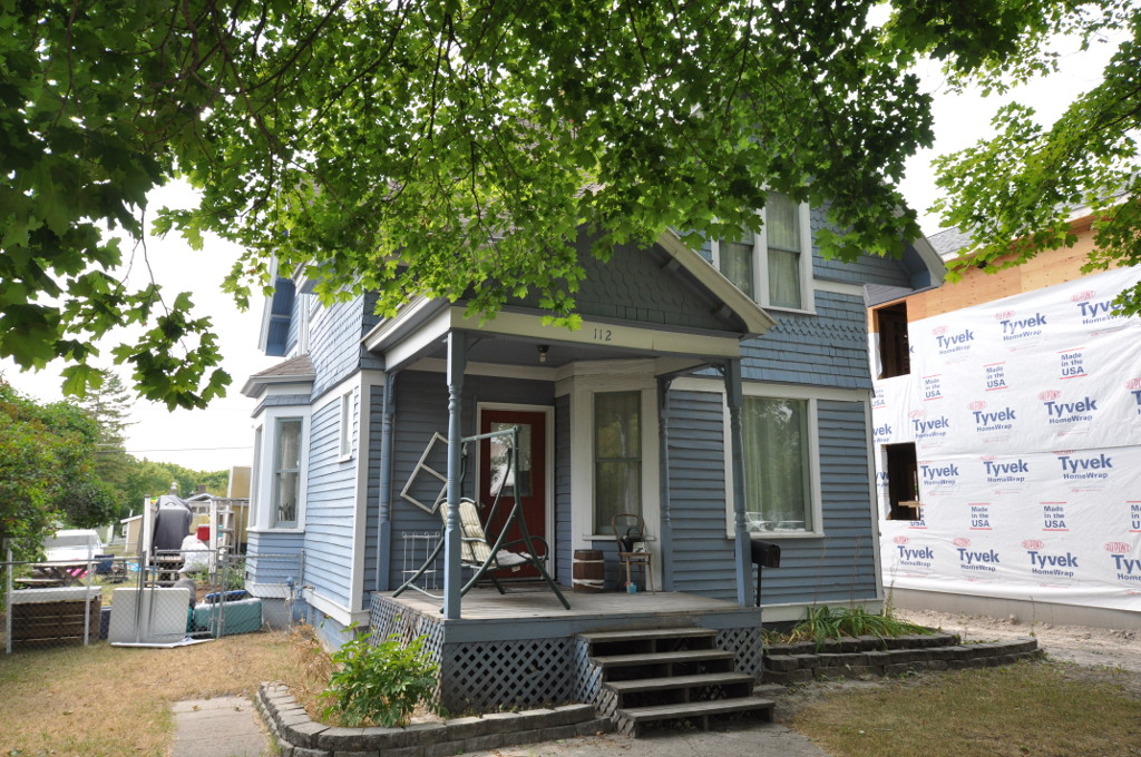 Alexander and Busey Houses, Kalispell, Montana. This is the Alexander House at 112 5th Ave. W; the Busey House at 106 has been demolished and is being replaced by new construction (at right in photo) in 2017.